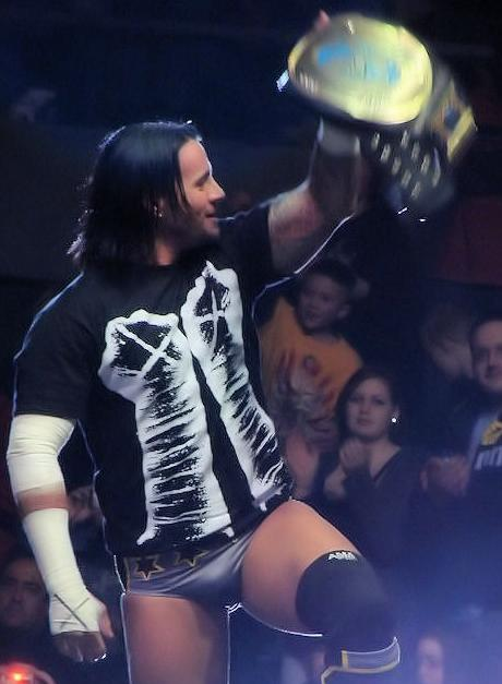 CM Punk as the Intercontinental Champion